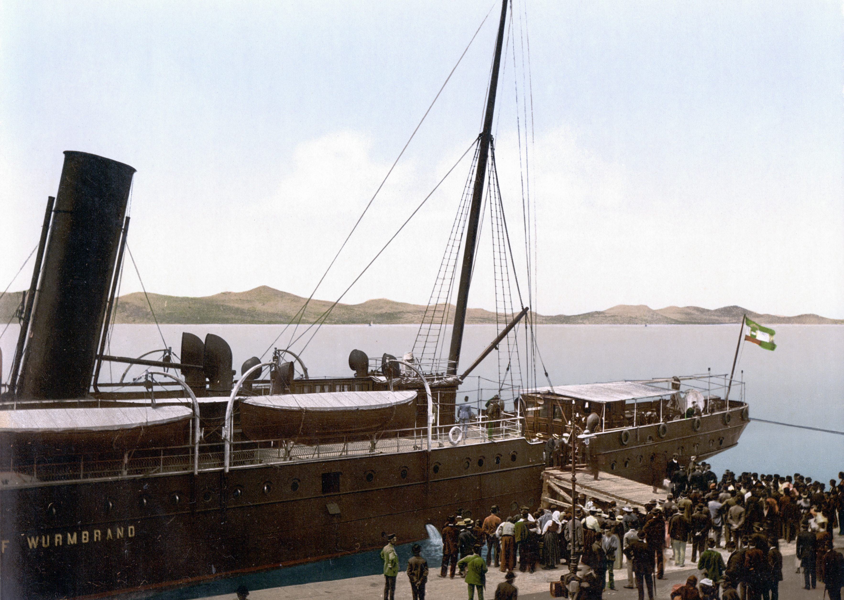 steamship "Graf Wurmbrand" at the port of Zadar (Dalmatia)